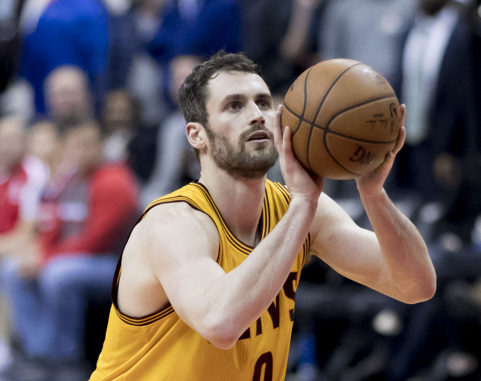 Kevin Love of the Cleveland Cavaliers in action against the Washington Wizards during a game on February 6, 2017 at Verizon Center in Washington, DC.